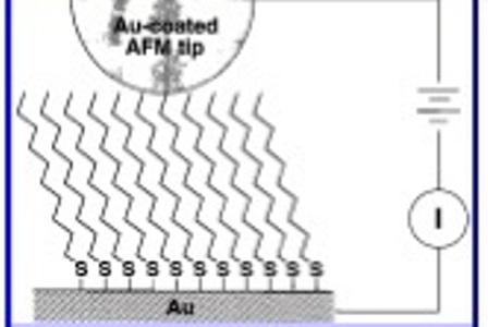 Repulsive Contact Between Au-Plated Conductive AFM Tip And Sample License Number: 2657080500147 License Date: Apr. 26, 2011 Licensed Content Publisher: Journal of the American Chemical Society Licensed Content title: Formation of Metal−Molecule−Metal Tunnel Junctions: Microcontacts to Alkanethiol Monolayers with a Conducting AFM Tip Licensed Content Author: David J. Wold and C. Daniel Frisbie